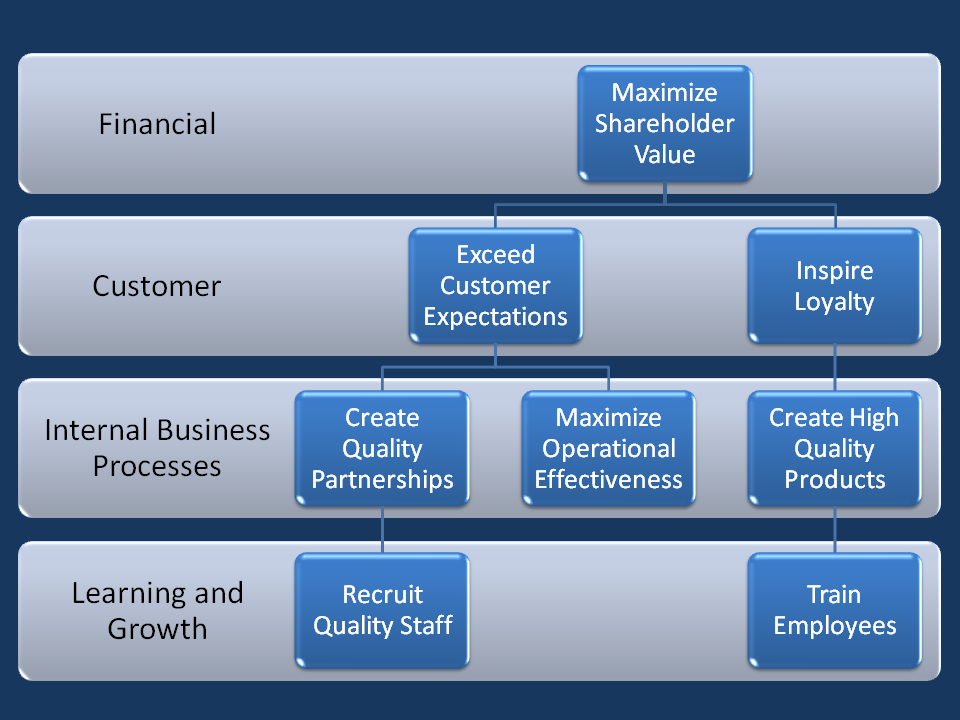 This example strategy map shows the "perspectives" across the page and the "objectives" in the linked boxes.